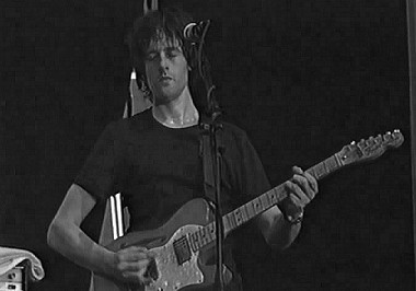 Jason Pierce (of Spiritualized) in concert, 1998. Photo by Channel R.